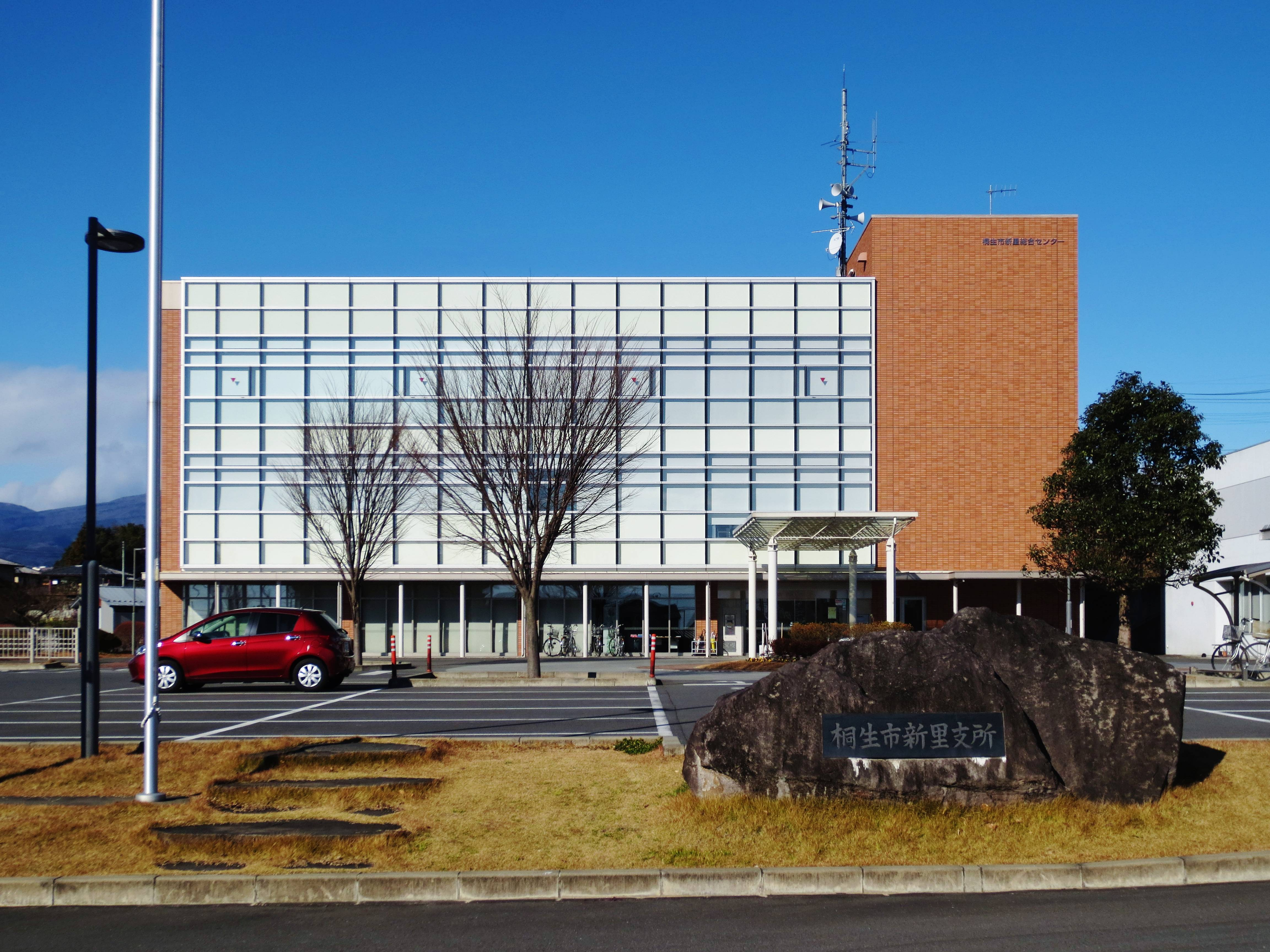 Kiryu city Niisato branch office (Niisato Public Services Center).